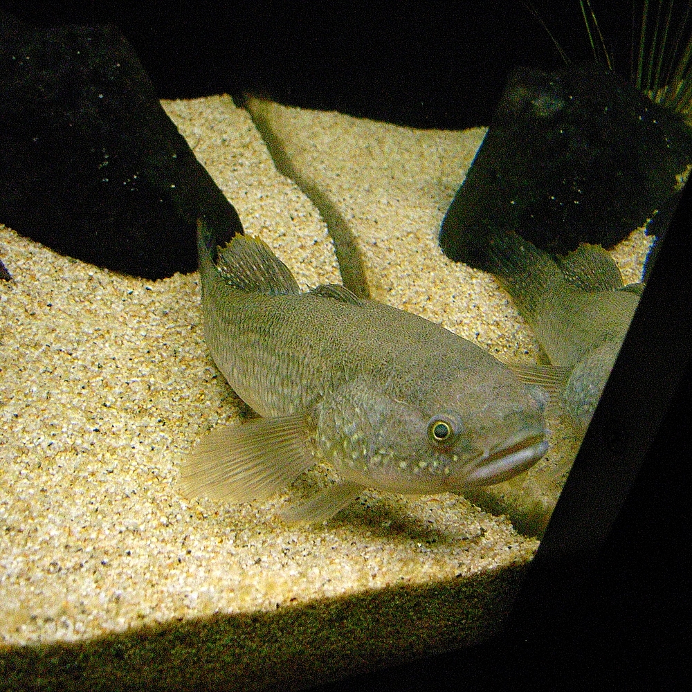 Mud gudgeon (Ophieleotris aporos (Bleeker, 1854)) at the Enochima Aquarium, Japan. NCBI Taxonomy ID:150313